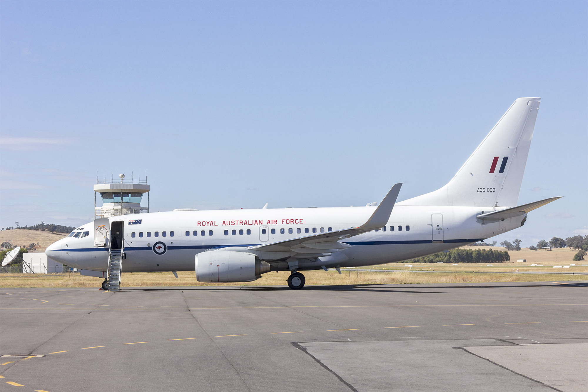 Royal Australian Air Force (A36-002) Boeing 737-7DT (BBJ) at Wagga Wagga Airport.